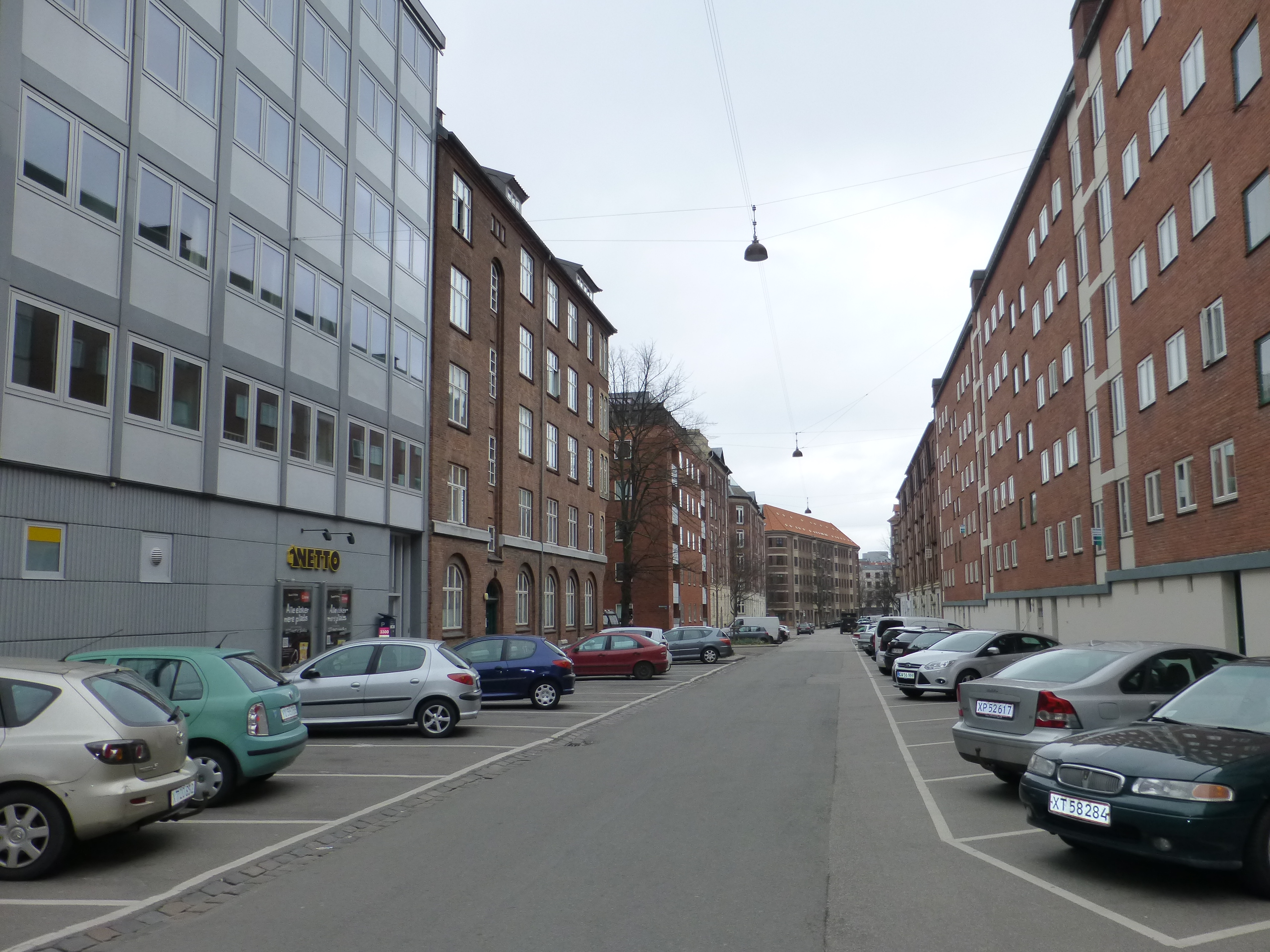 The street Korsørgade in Østerbro in Copenhagen.